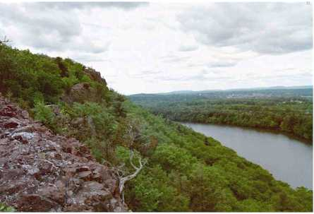 Chauncey Peak. The Metacomet Ridge. by Paul Gagnon